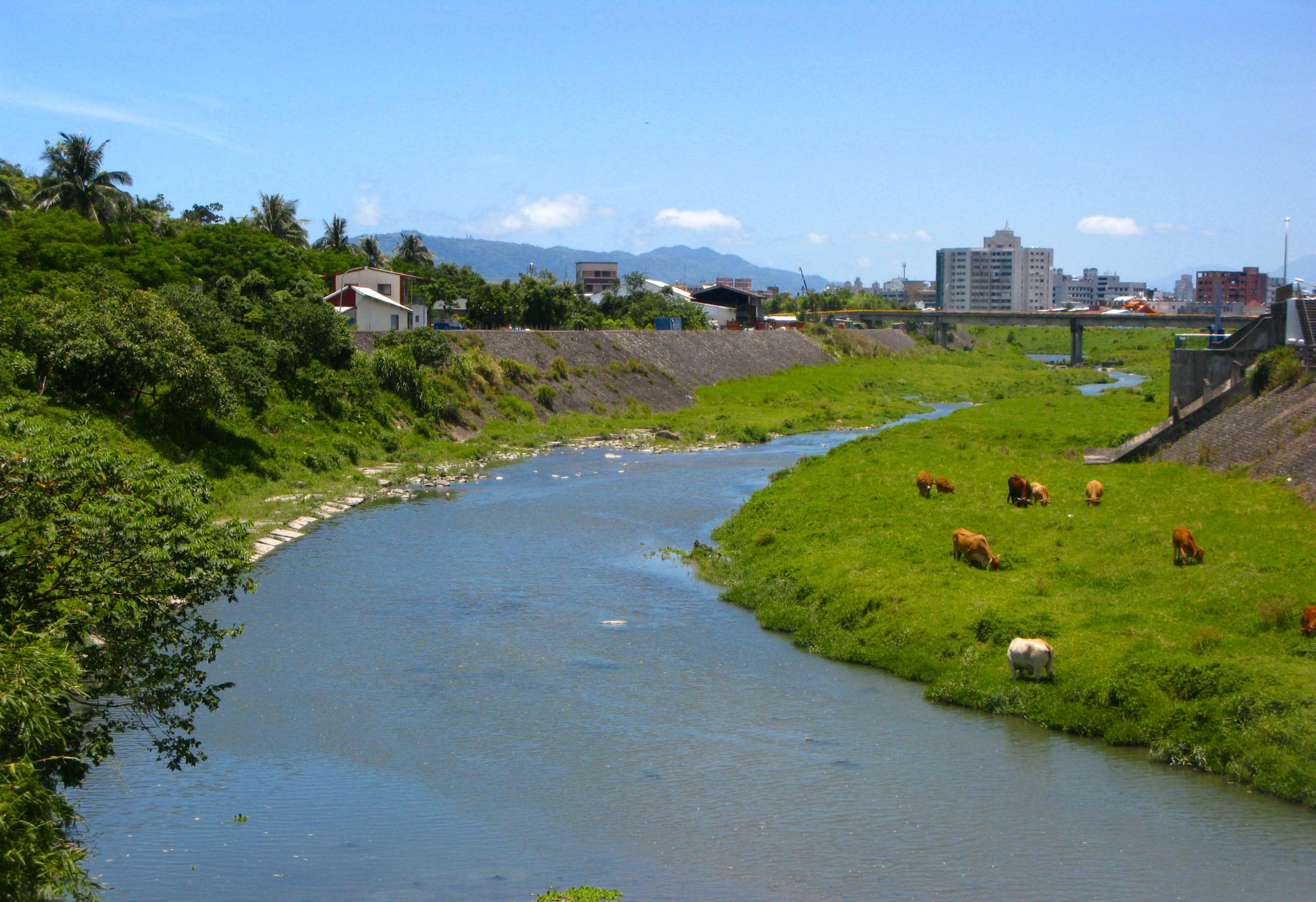 Mei-Lun River，Taiwan